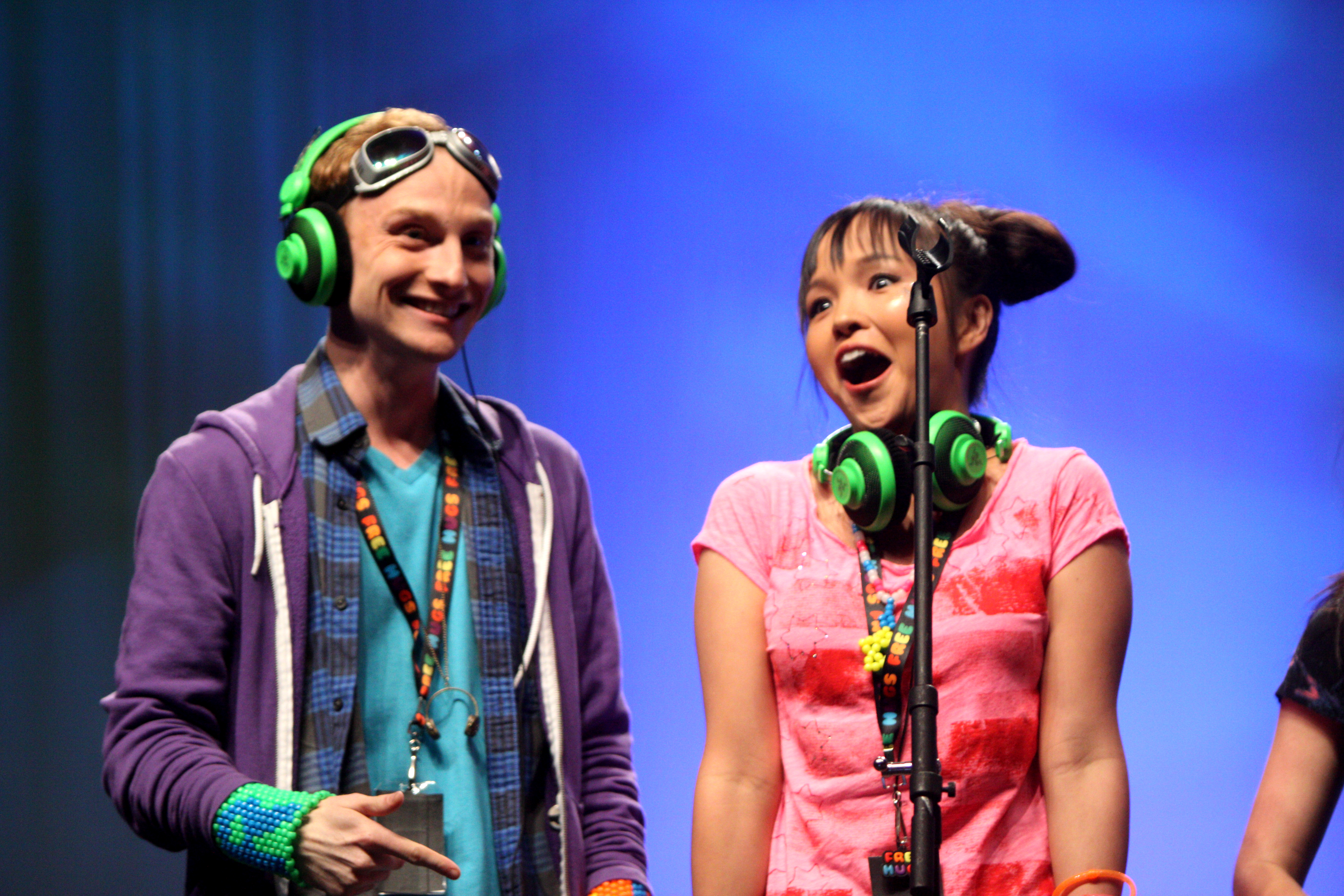 Dubstep & Techno of MyMusic speaking at VidCon 2012 at the Anaheim Convention Center in Anaheim, California.